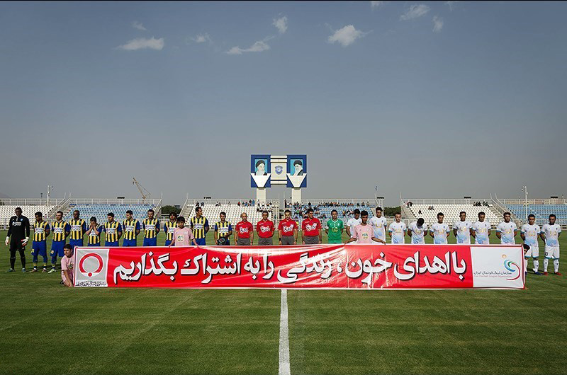 Gostaresh Foulad 0 - 0 Paykan at Bonyan Diesel Stadium, July 2016